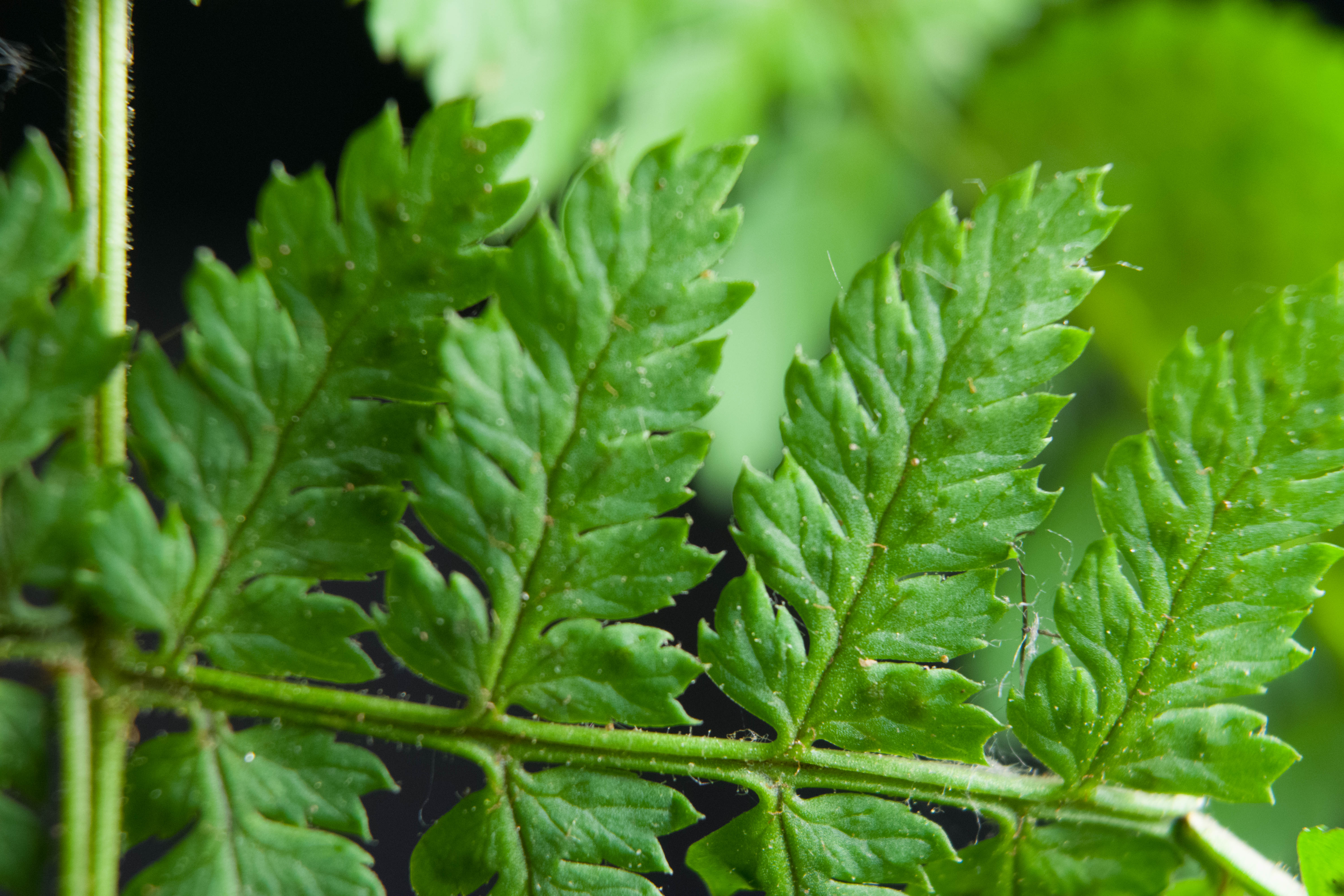 showing sori